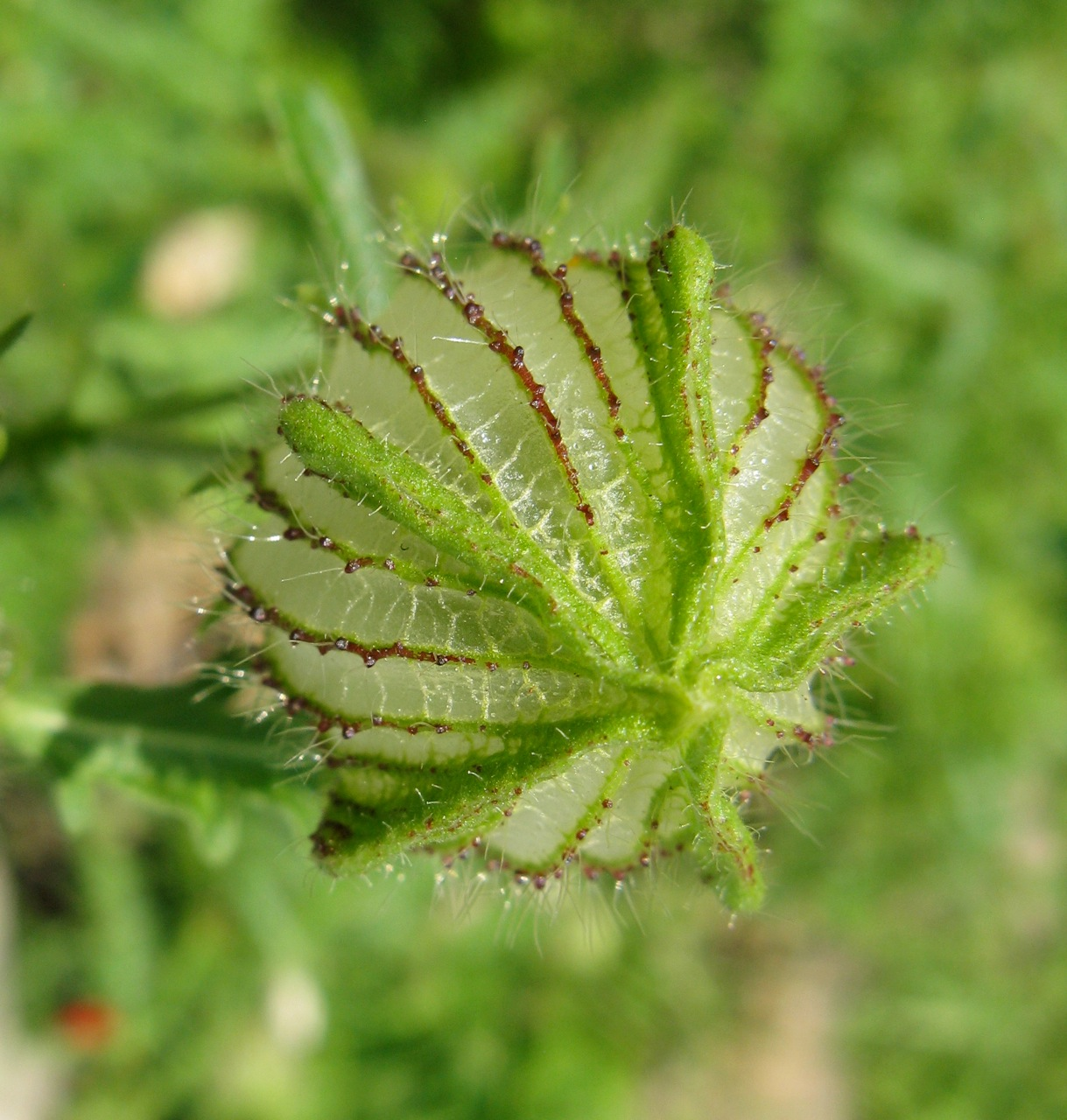 Fruit